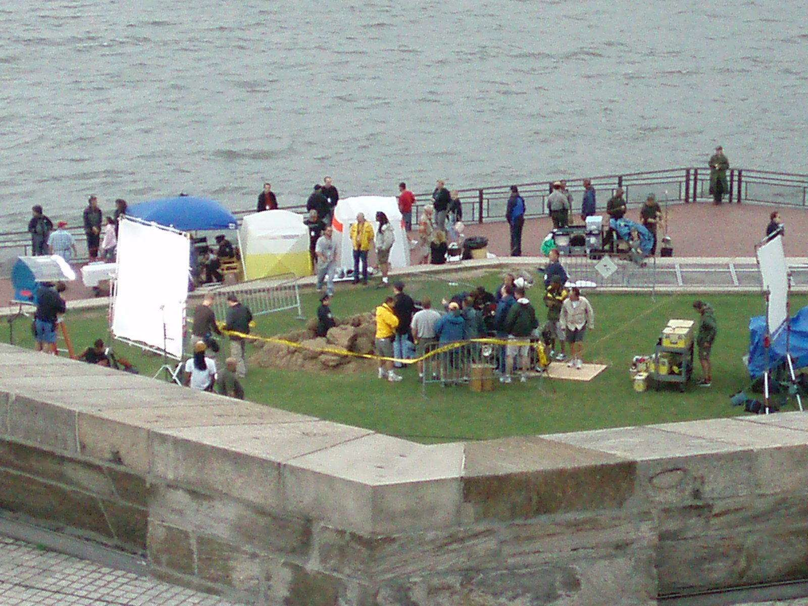 Film set for the 2008 film Meet Dave at the base of the Statue of Liberty.